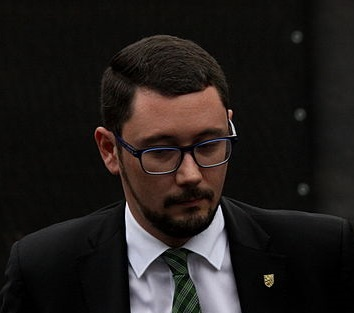 25th anniversary of Velvet revolution on Albertov in Prague, Czech Republic - Google Maps - Google Earth